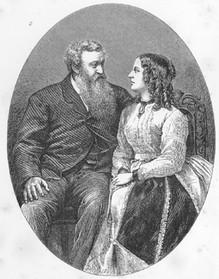 John Petherick and his wife Katherine